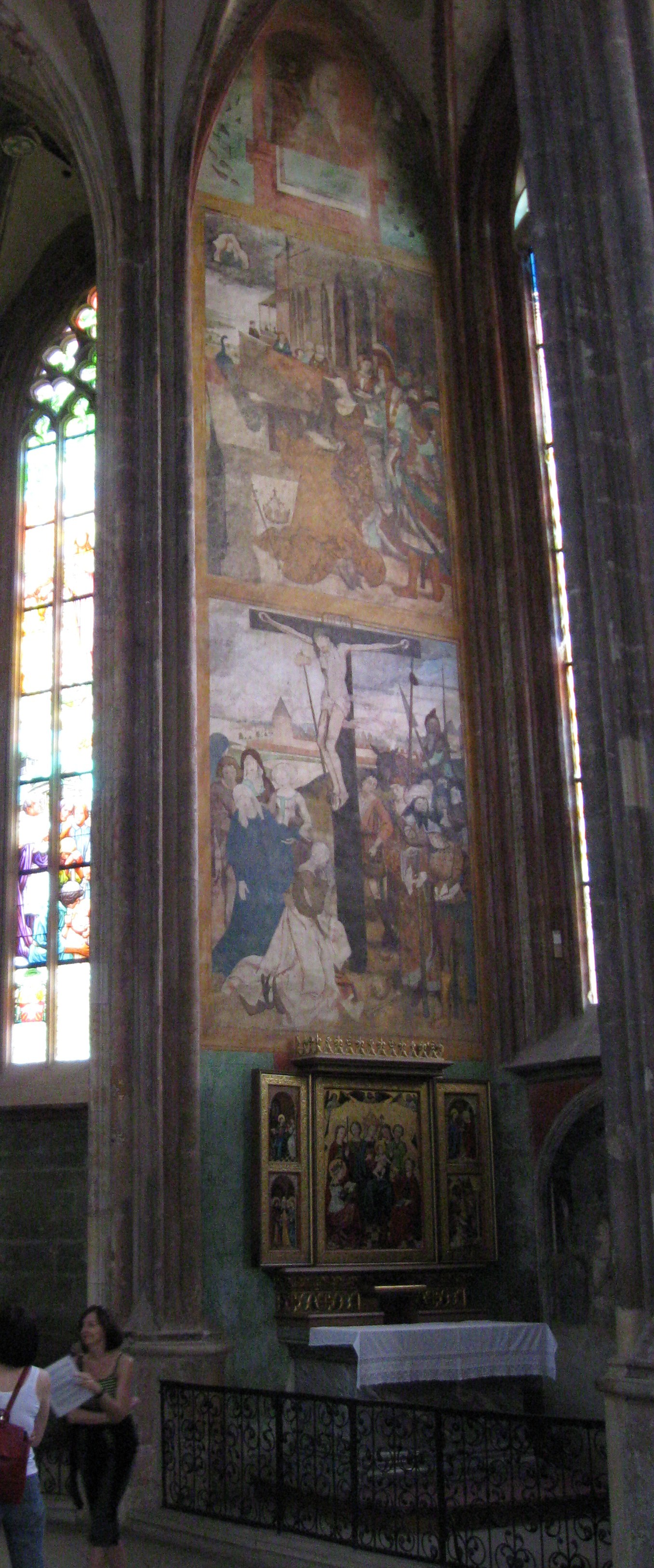 A detail of the fresco work in Smíškovská chapel in the Cathedral of Santa Barbara, Kutná Hora, Czech Republic. Frescoes where created between 1485 and 1492 (?), by unknown gothich master called as "Mistr Smíškovské kaple" (Master of Smíškovská Chapel). Picture cropped, without flash nor stative.